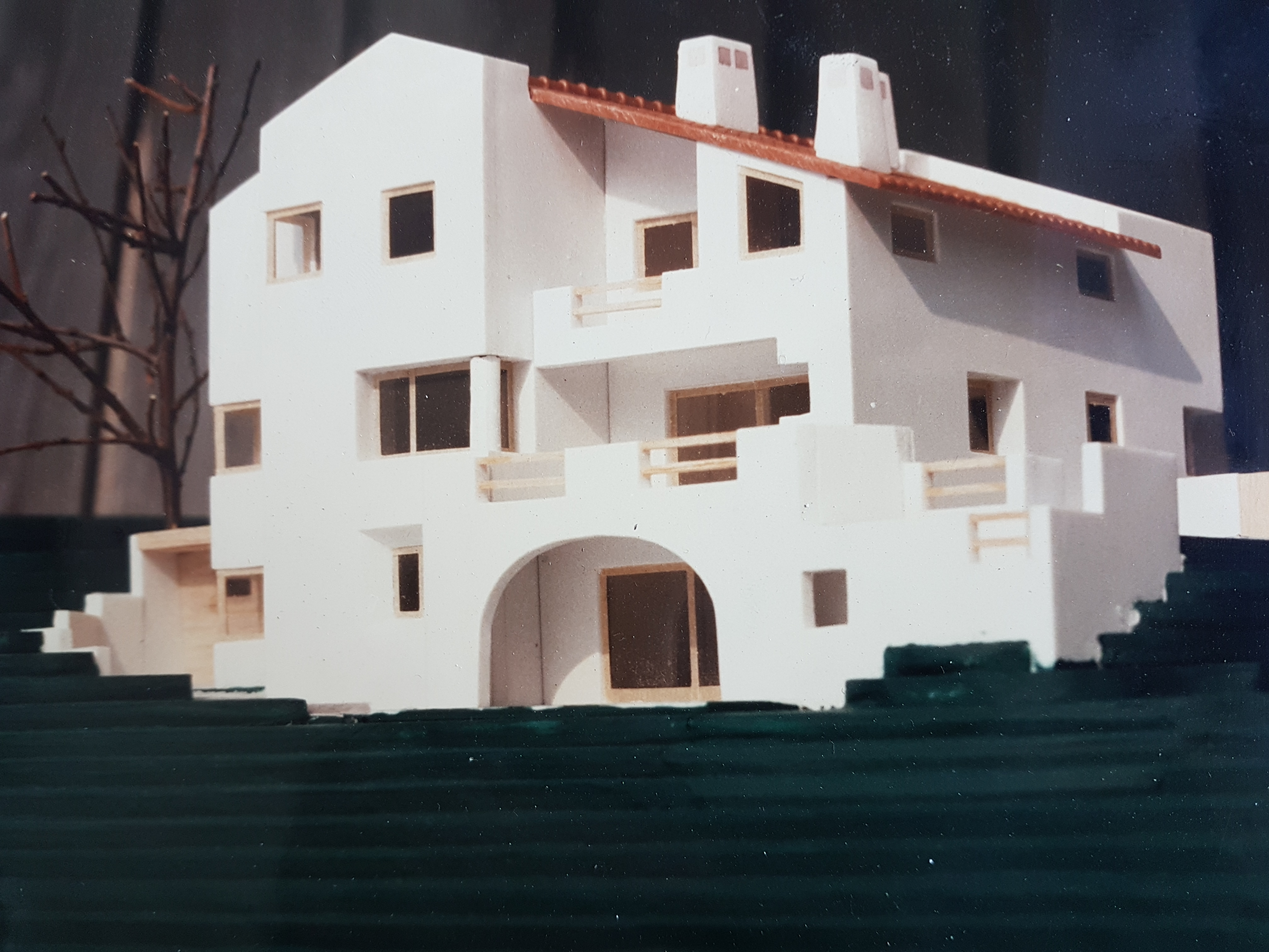 Haus Weissteiner, Innsbruck, Mag.Arch.G.Widmann